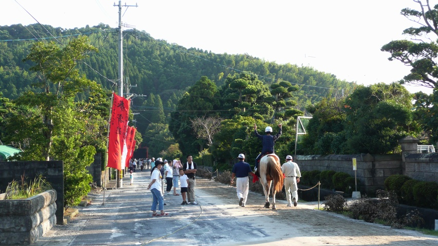 Shijūkusho Jinja - Sandō (kimotsuki Town, Kagoshima,Japan)